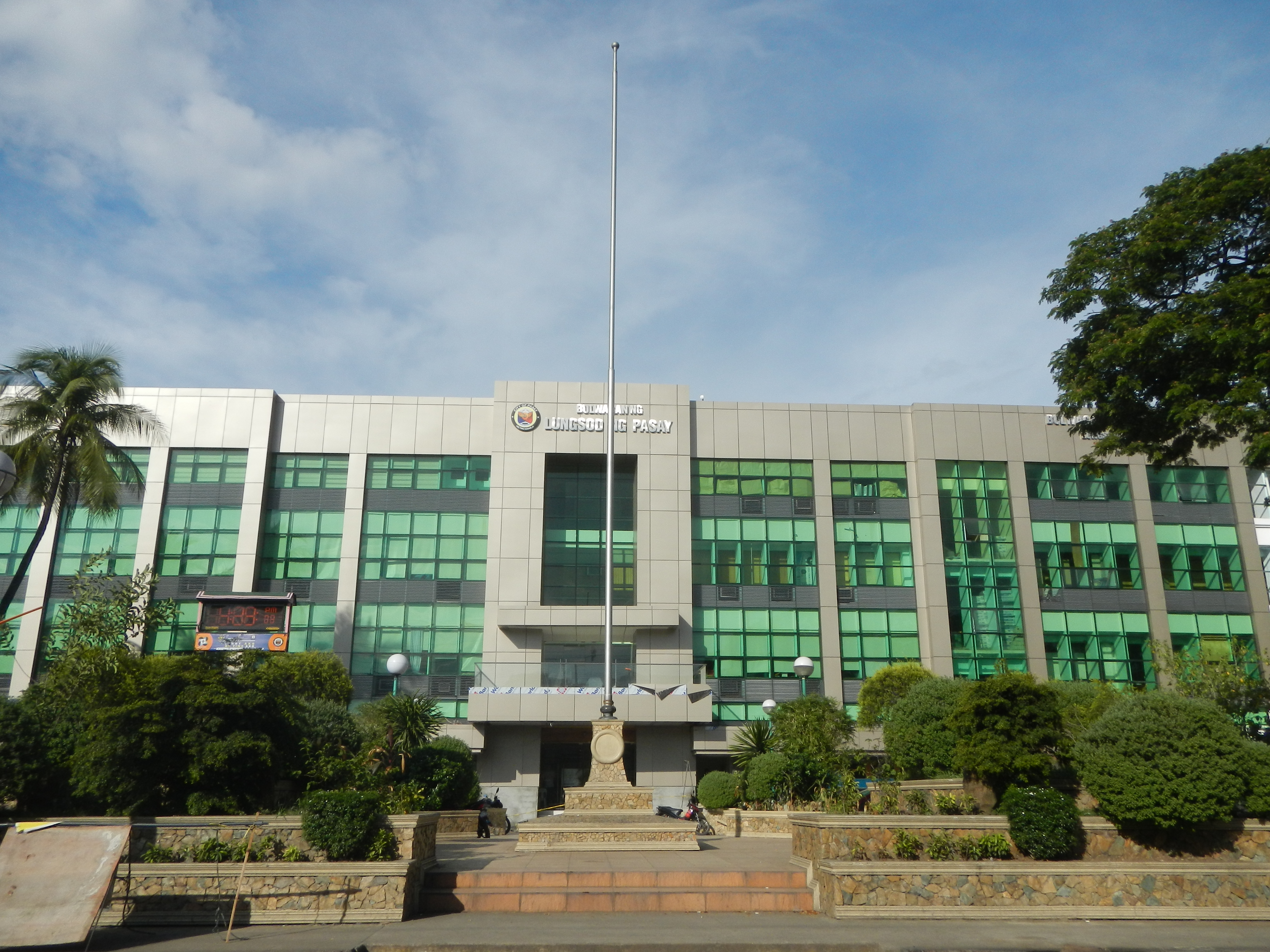 New Pasay City Hall along Harrison Avenue Francis Burton Harrison Avenue, known as F.B. Harrison Avenue , F.B. Harrison Street, Pasay City.